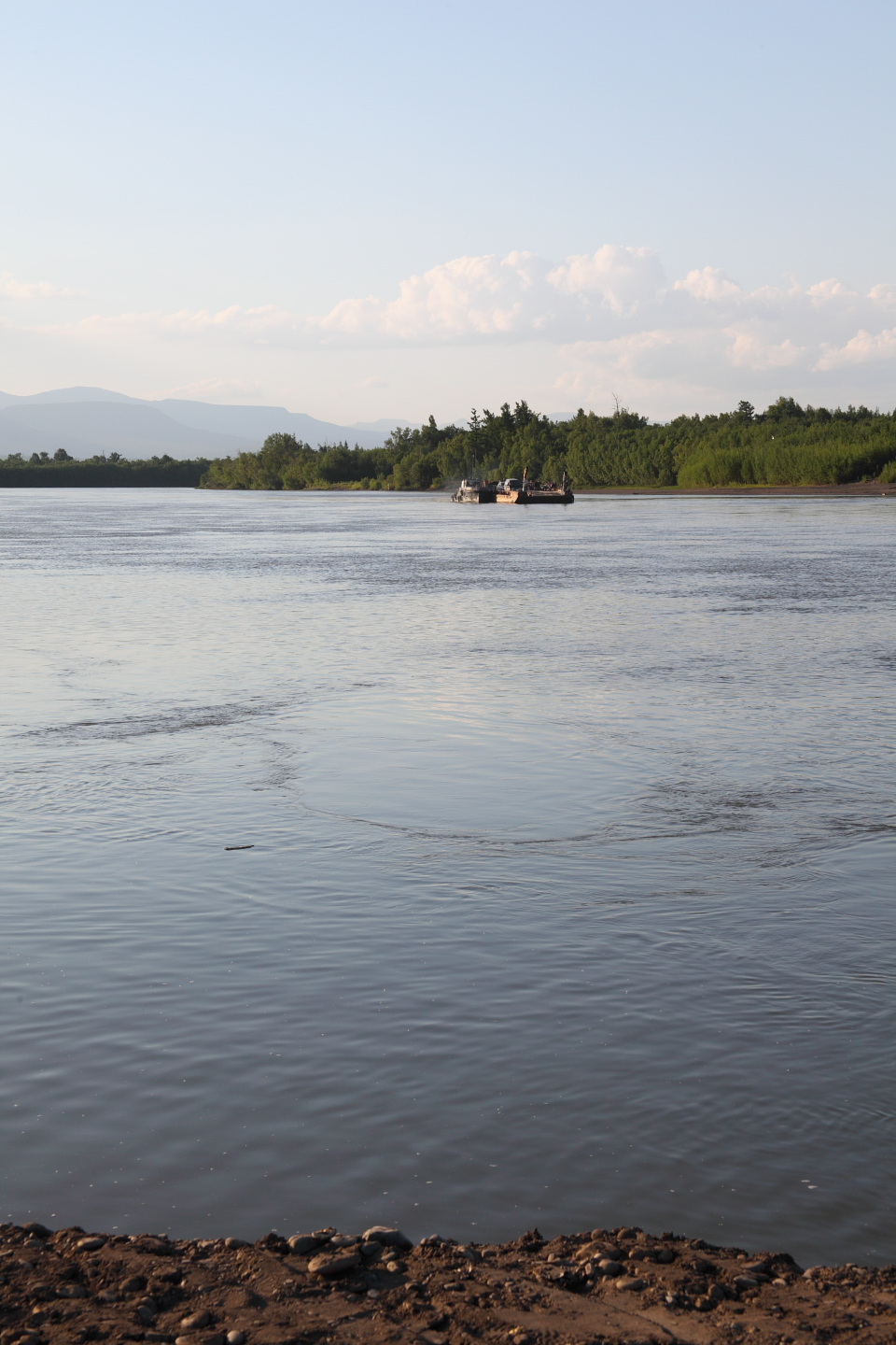 "We're waiting for the ferry, which is a tugboat and a barge, over the Kamchatka River."